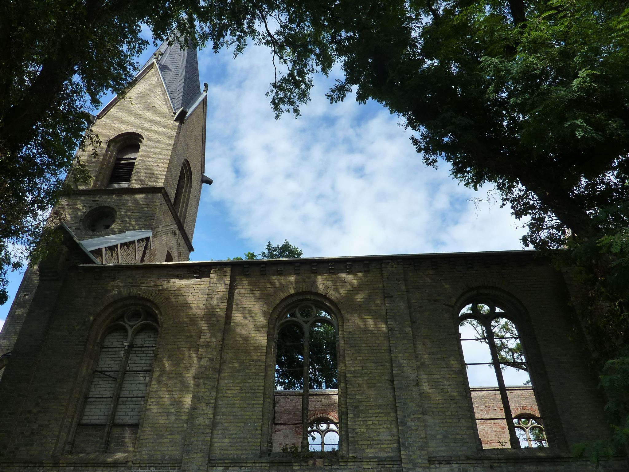 Church in Altthymen